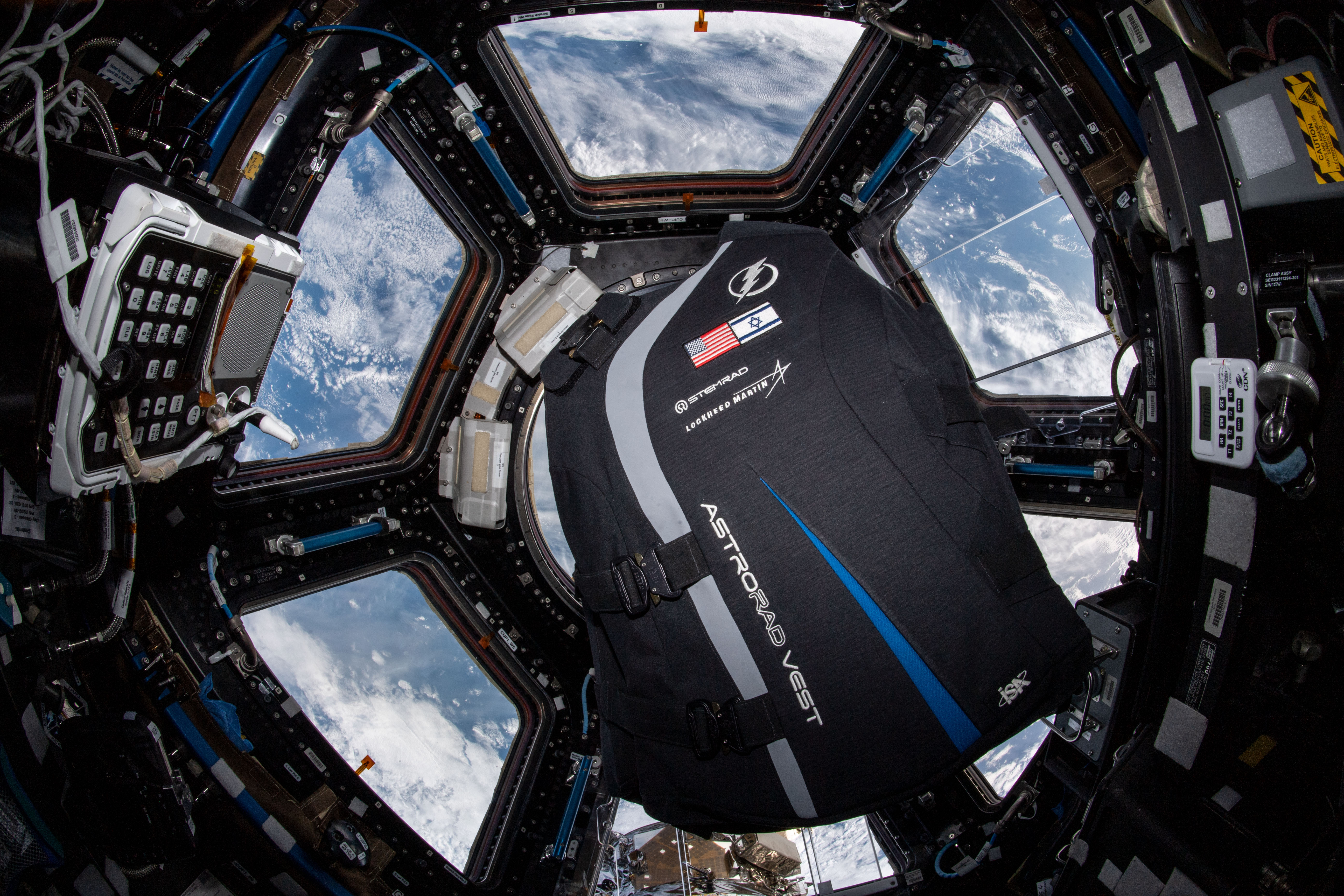 A shot of AstroRad taken by NASA crew aboard ISS in January, 2020.